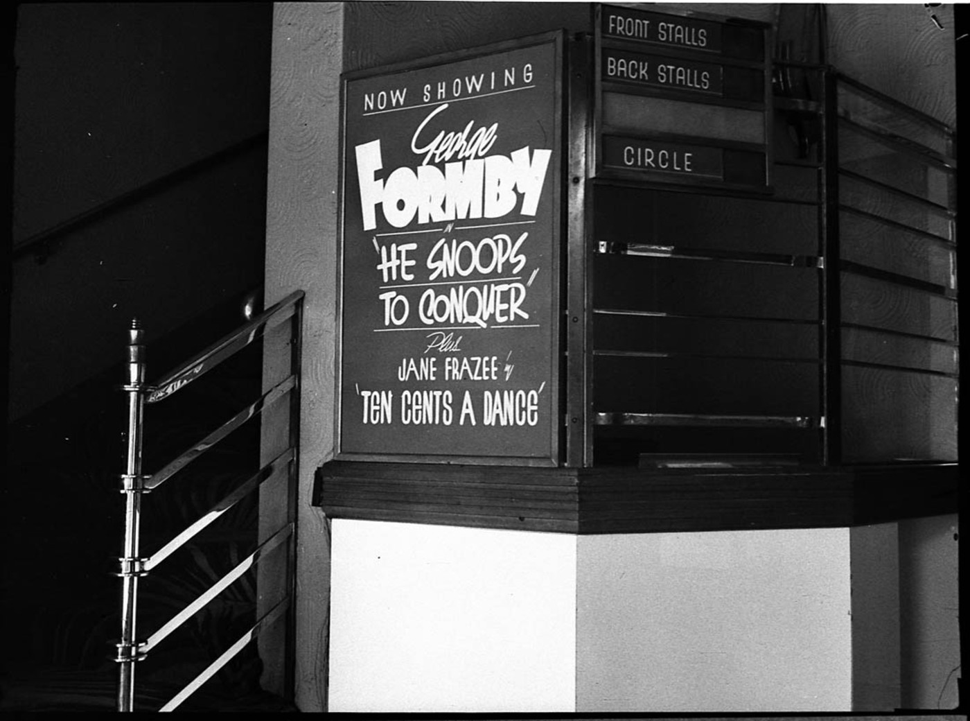 Victory Theatre (taken for Union Theatres) showing the films He Snoops to Conquer (1944) and Ten Cents a Dance (1945).